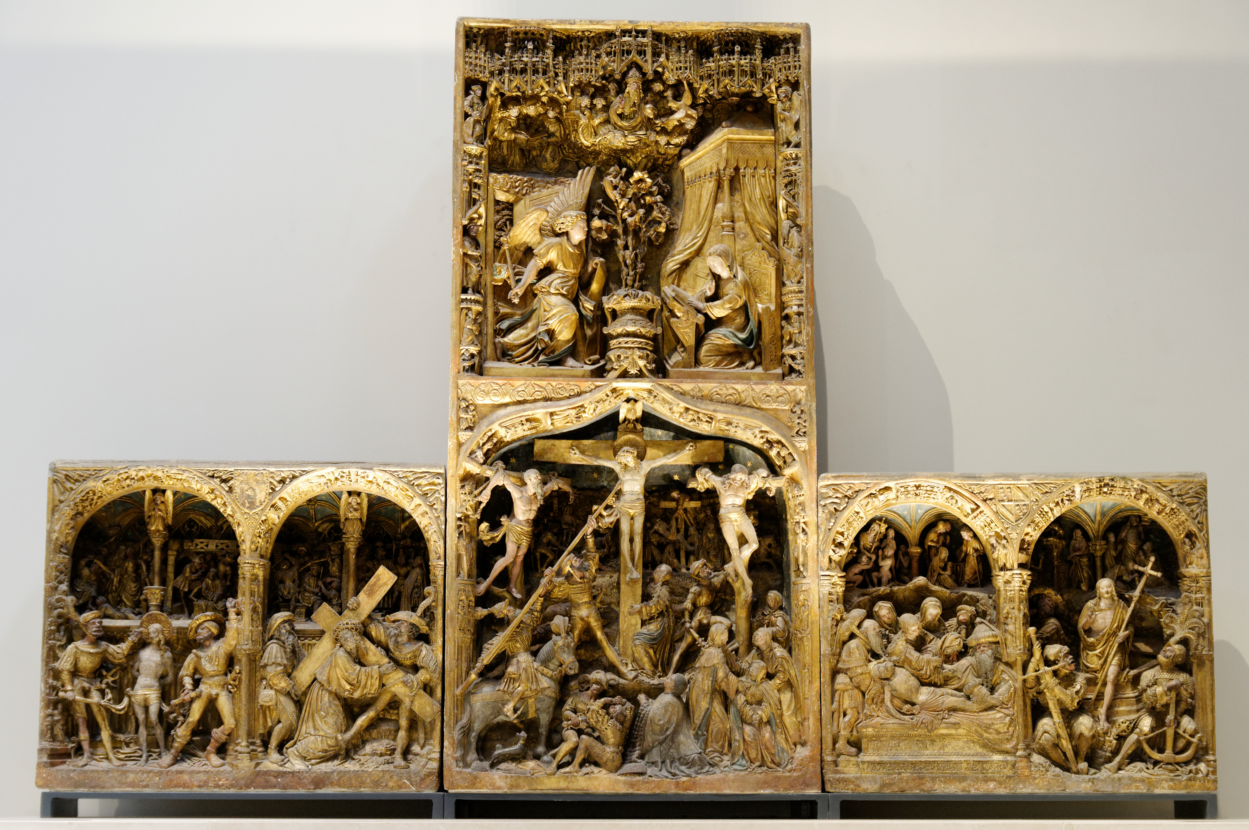 Scenes from the Passion of Christ with a donor, Jean Huynard the Elder, a lawyer who was elected dean of the chapter of Lirey in 1504. Altarpiece made for the collegiate church at Lirey, near Troyes.